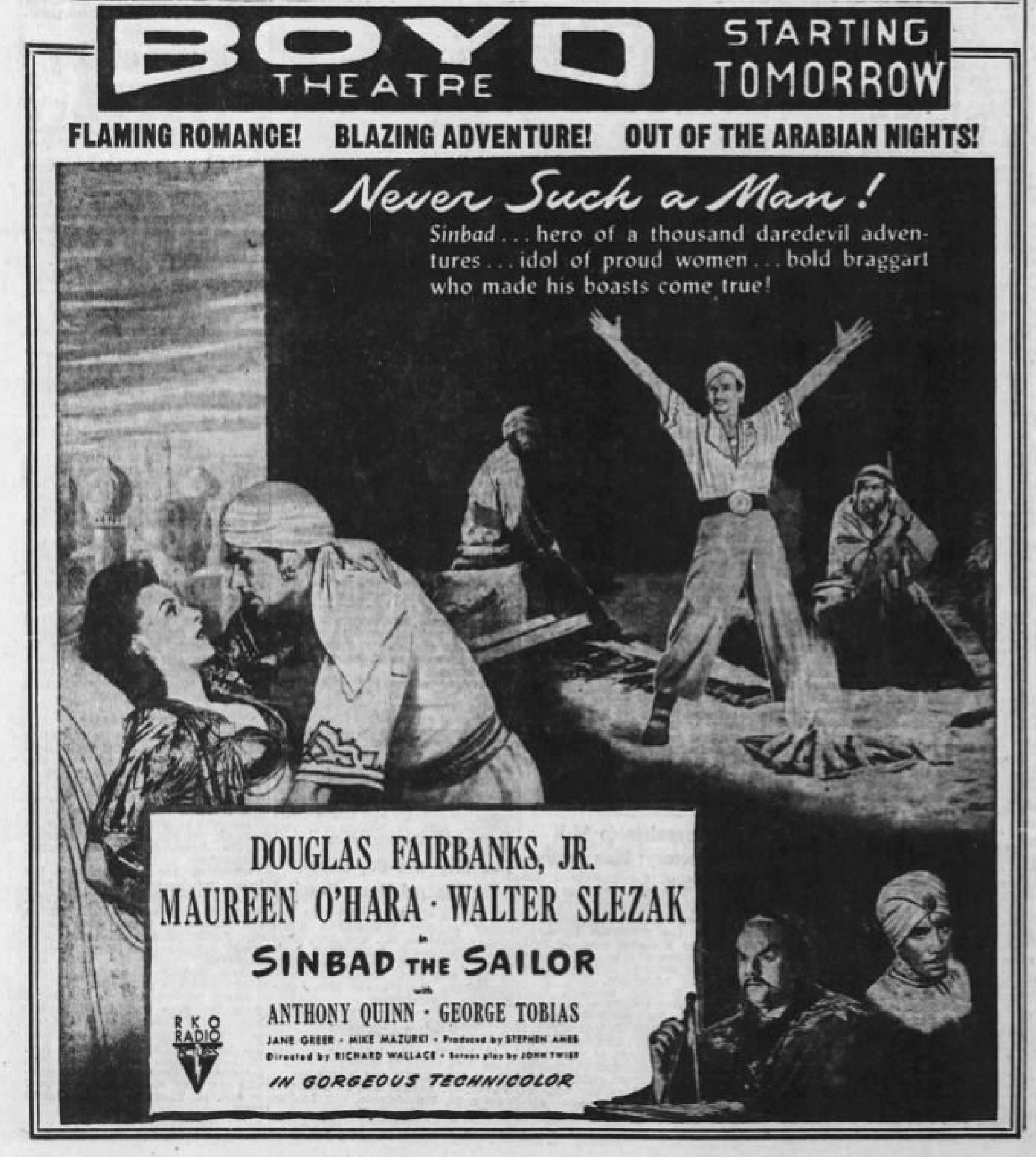 Boyd Theater advertisement for the American film Sinbad the Sailor (1947) - 11 Mar. 1947 Morning Call, Allentown PA